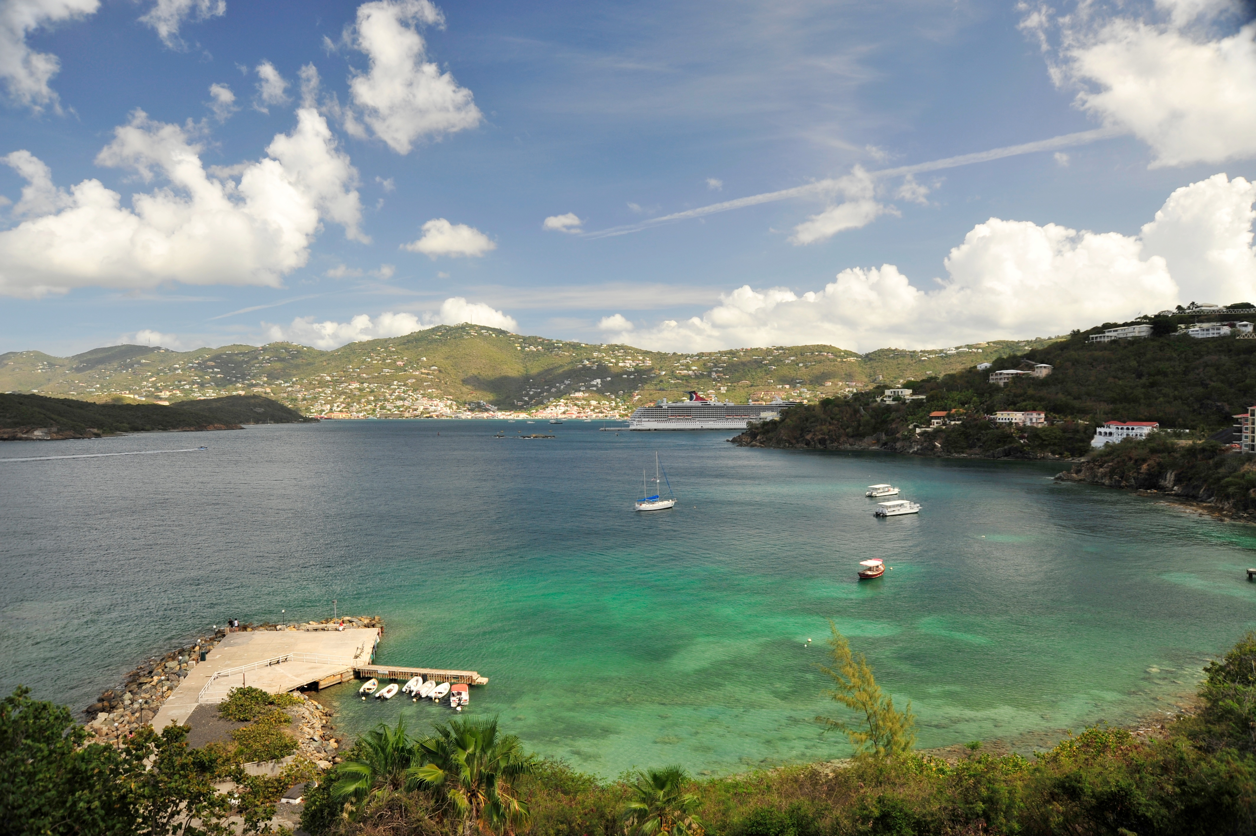 Wharf by Marriott−Pacquereau Bay — on St. Thomas island, United States Virgin Islands.